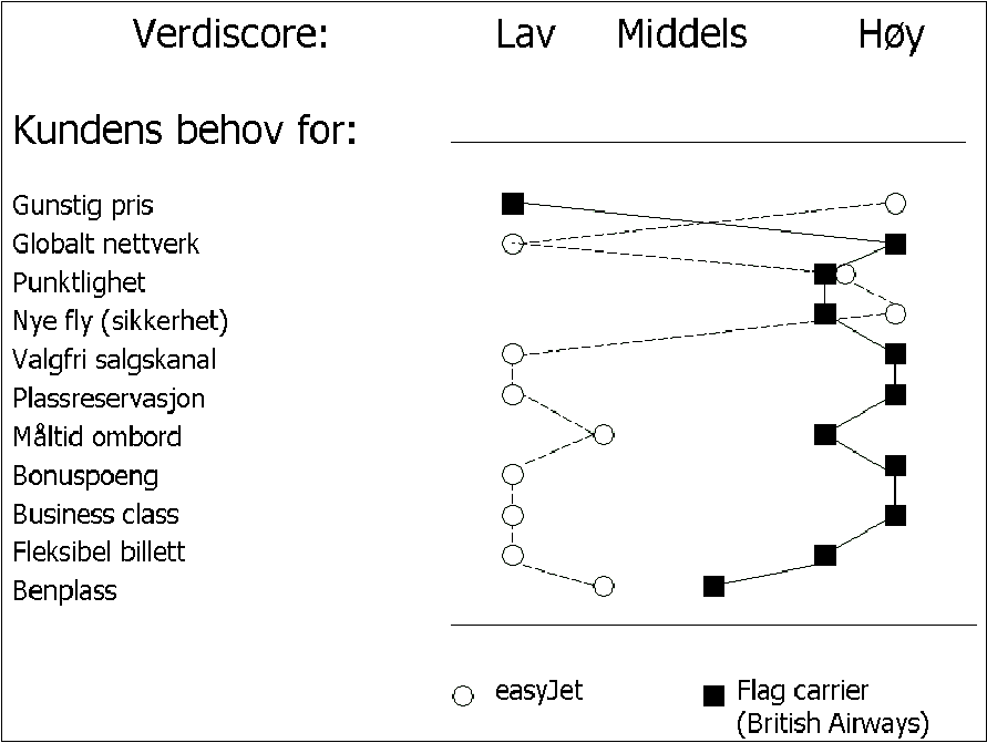 Example of value curves for easyJet and British Airways